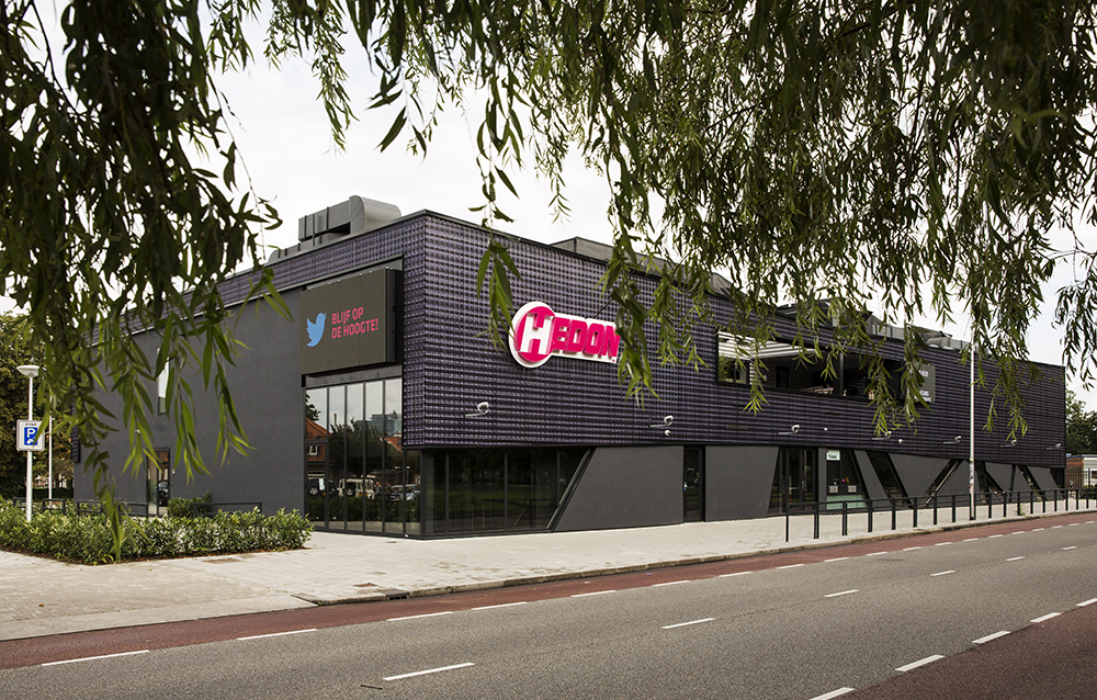 Music Venue Hedon